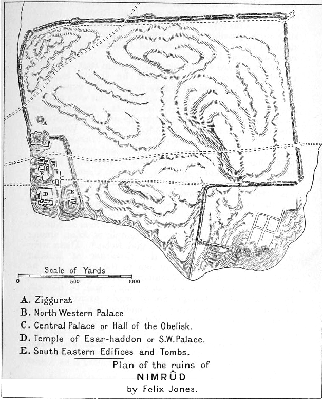 This plan was included in Budge's narrative as an included plate. Originally drawn by Felix Jones.